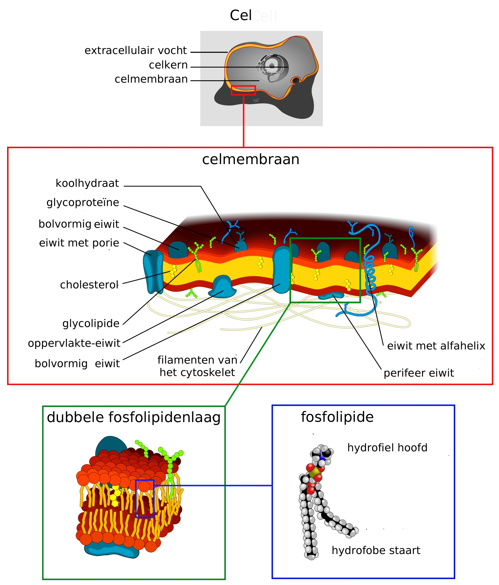 The cell membrane, also called the plasma membrane or plasmalemma, is a semipermeable lipid bilayer common to all living cells. It contains a variety of biological molecules, primarily proteins and lipids, which are involved in a vast array of cellular processes. It also serves as the attachment point for both the intracellular cytoskeleton and, if present, the cell wall.